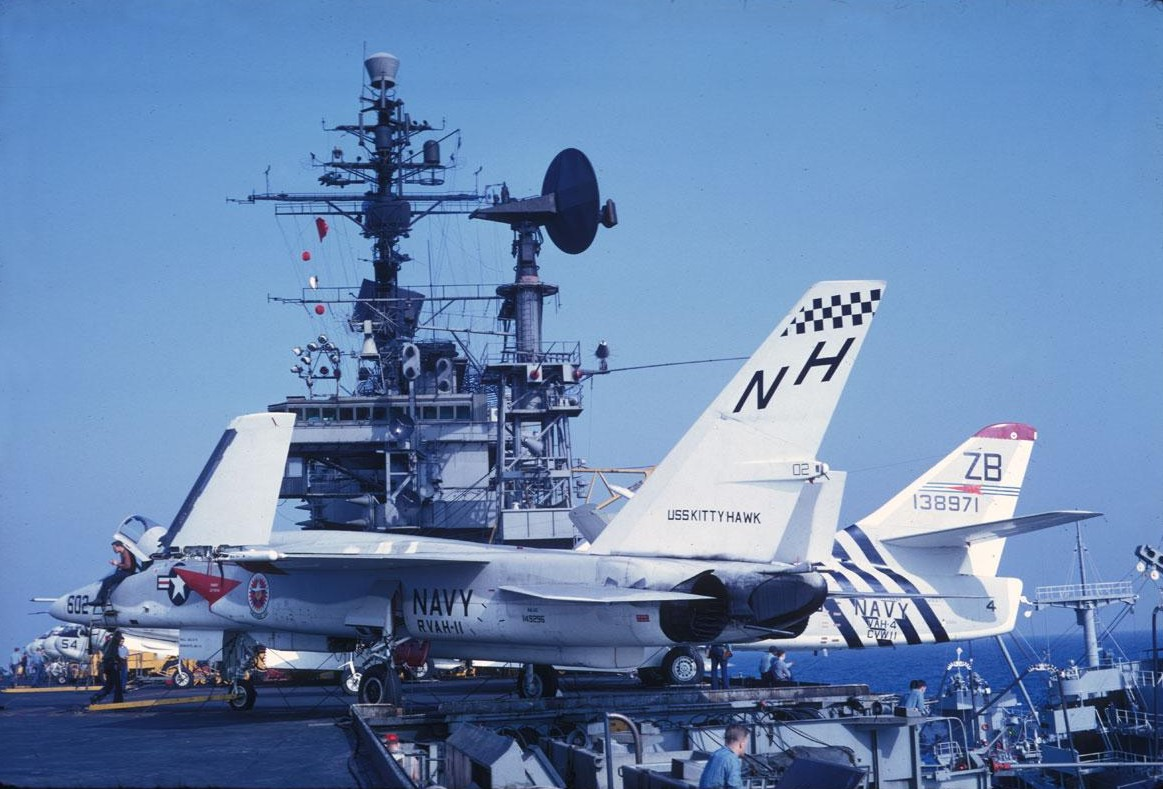 A North American RA-5C Vigilante reconnaissance plane (BuNo 149295) of heavy reconnaissance squadron RVAH-11 Checkertails on the carrier USS Kitty Hawk (CVA-63) during a deployment to Vietnam in 1968. A Douglas KA-3B Skywarrior (BuNo 138971) of VAH-4 Det. 63 Fourrunners is parked behind the Vigilante. Both squadrons were assigned to Carrier Air Wing Eleven (CVW-11). The radar mast located aft of the carrier's island carries the SPS-30 radar.